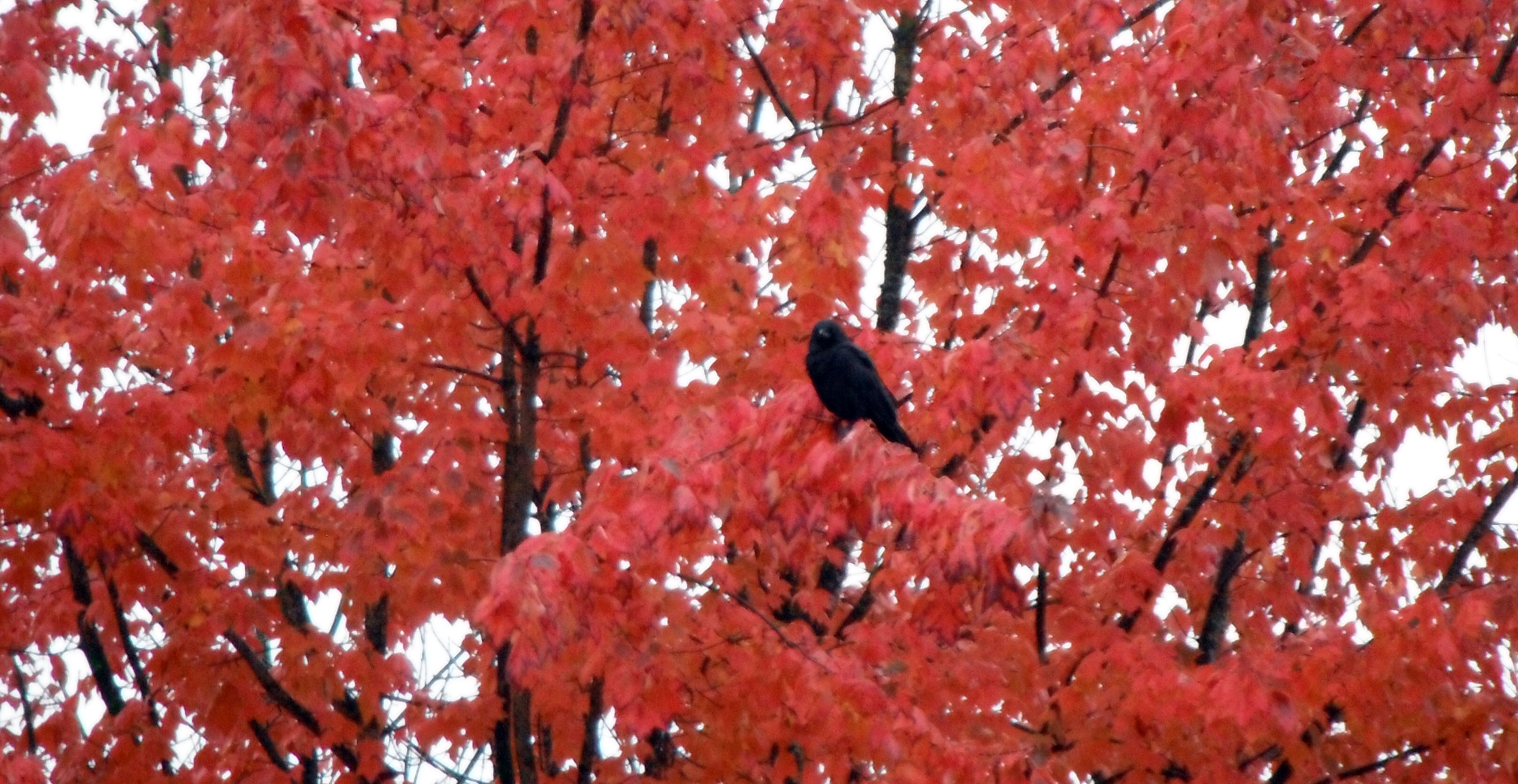 Northwestern Crow Corvus caurinus